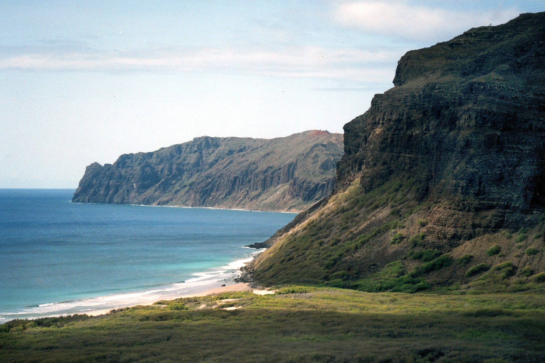 An aerial view of the windward (northeastern) cliffs of the Island of Niihau in Hawaii